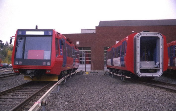 Oslo Metro T2000 at Ryen; just delivered